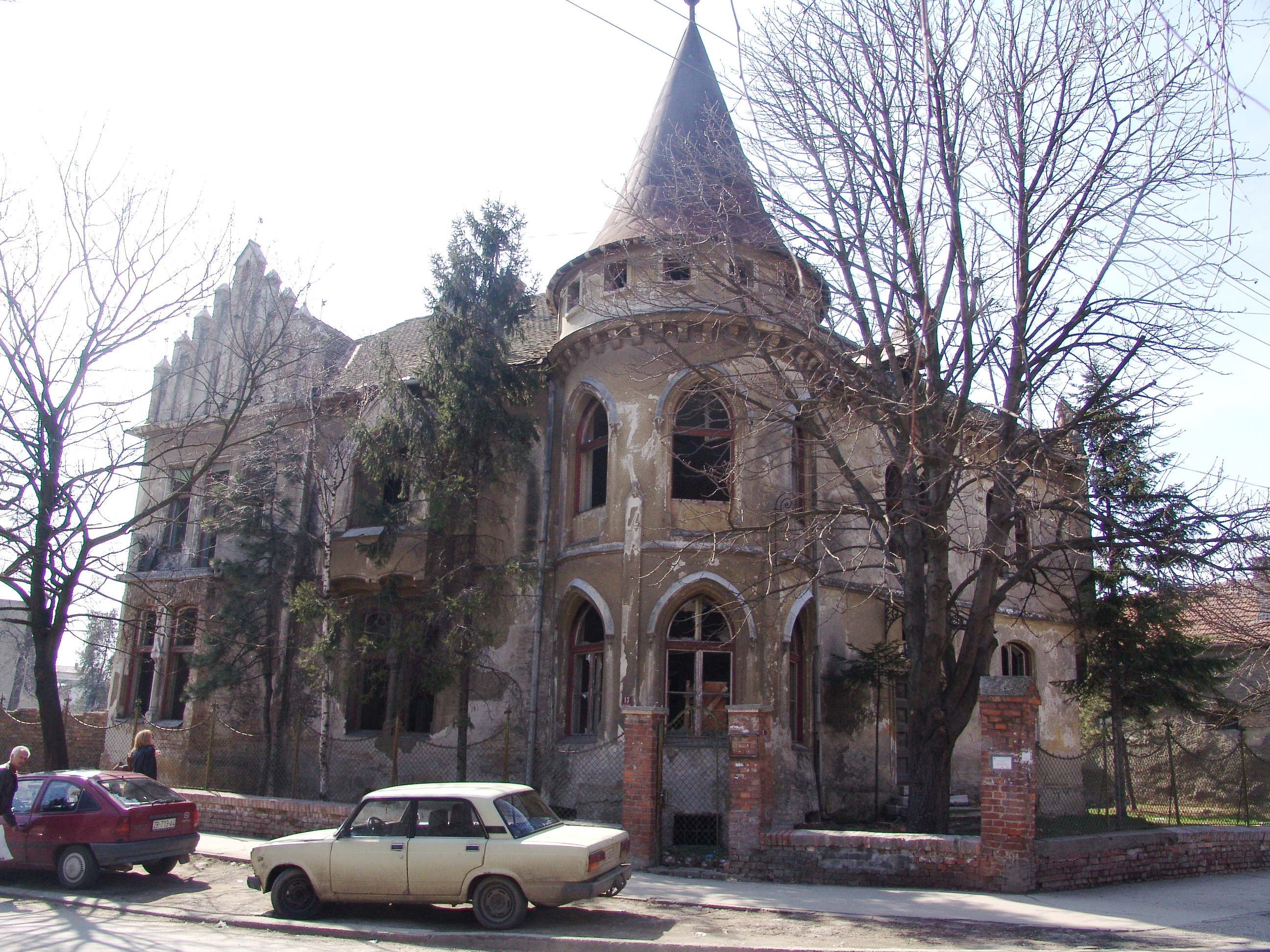 Pin Villa in Zrenjanin - street corner